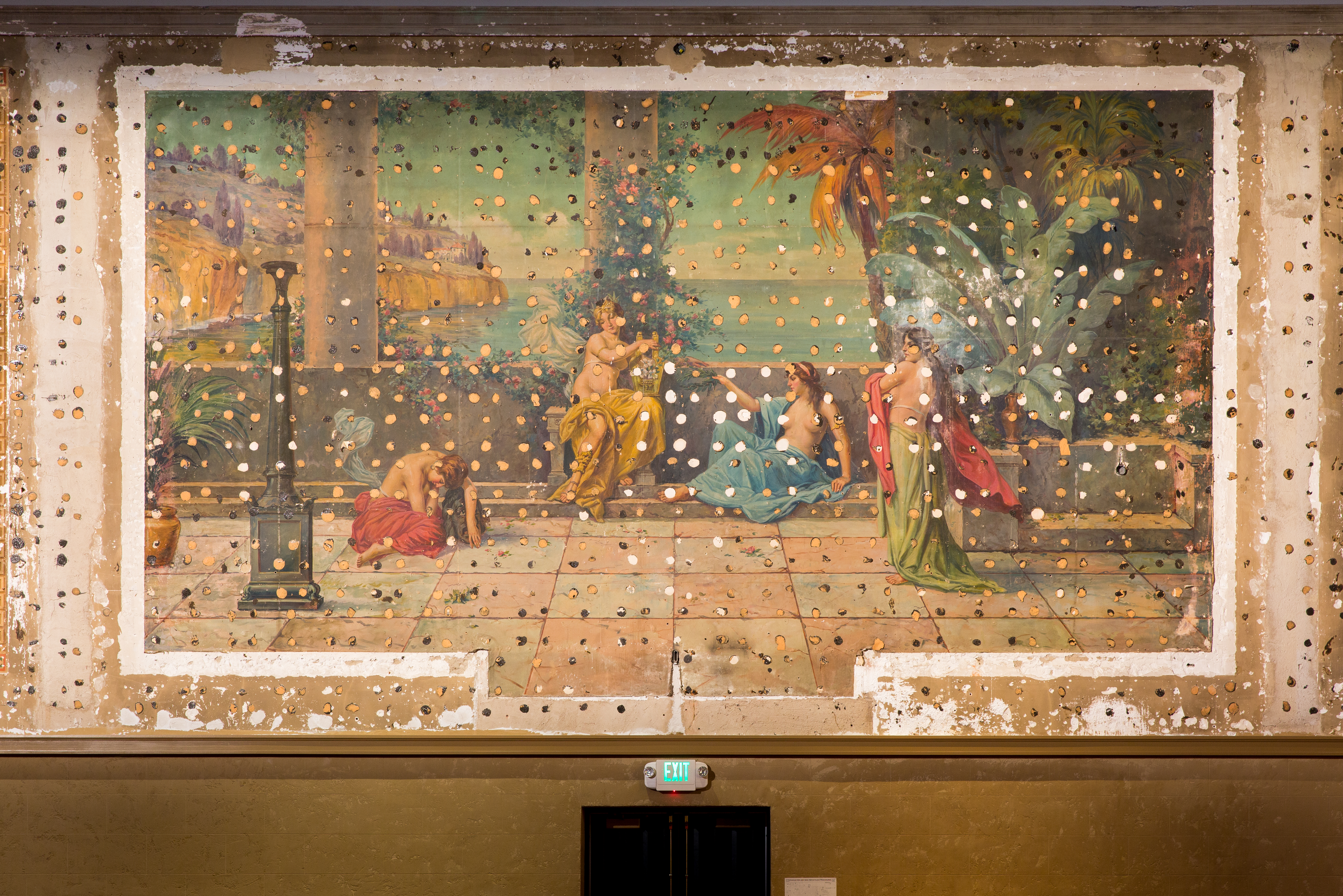 As the College of Charleston made improvements to the theatre in early 2011, it discovered two large-scale murals hiding beneath acoustic tiles. Painted on canvas by Italian artists from New York City during the theatre's construction in the 1920s, one scene depicts a centaur and nymphs before a forested and mountainous background. The other shows Classical figures celebrating music and drama before a blue-green sea. The murals were unveiled in 1927 during the theatre's grand opening. The College of Charleston has started to restore these masterpieces, already removing one mural for safekeeping and repair. The other mural has been uncovered and left hanging, its blemishes, damage and deterioration on display to theatre patrons, including the audiences of Spoleto Festival USA. Much of the restoration work will involve remediation of the many spots of glue used to attach acoustic tiles to the murals decades ago.